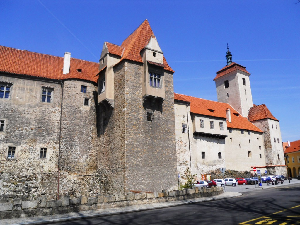 Strakonice castle Jelenka tower and church